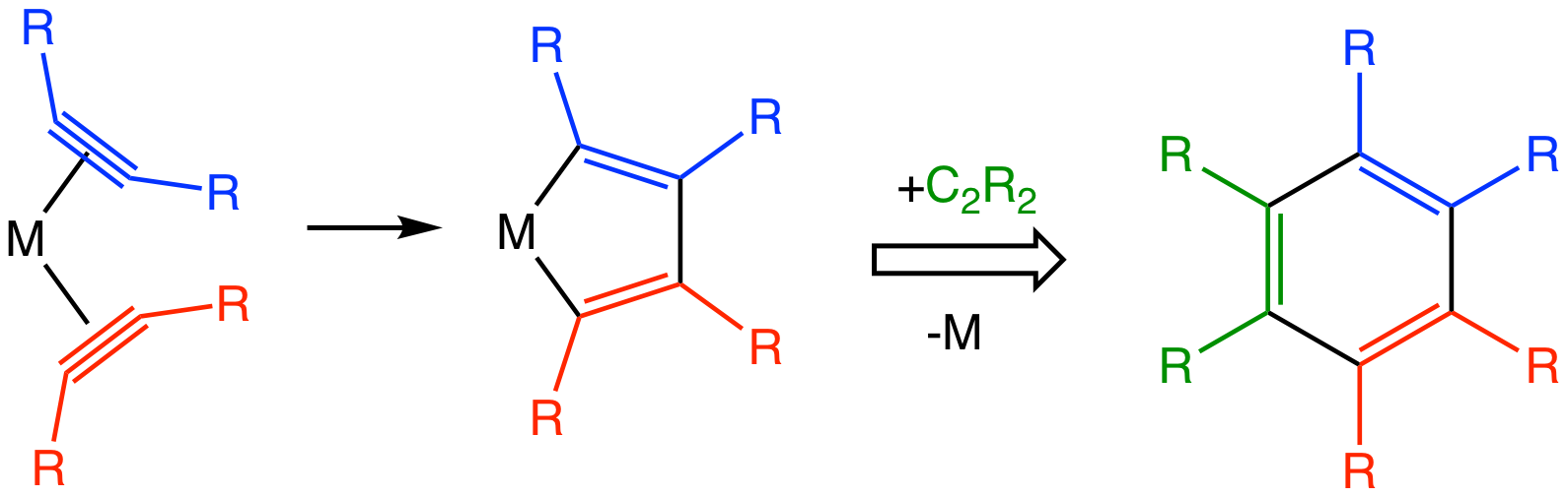 simplified mech for alkyne trimerization